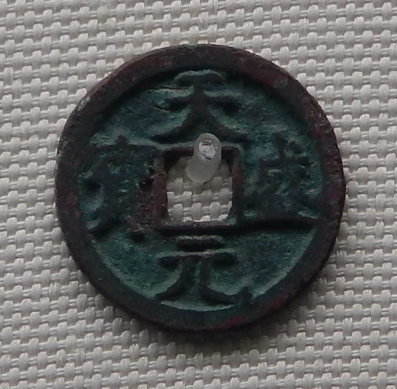 Western Xia bronze coin with inscription Tiansheng Yuanbao (天盛元寶). Held at the Great Wall of China Museum at Badaling, Beijing.中文（中国大陆）: 西夏《天盛元宝》铜钱。中国长城博物馆藏。